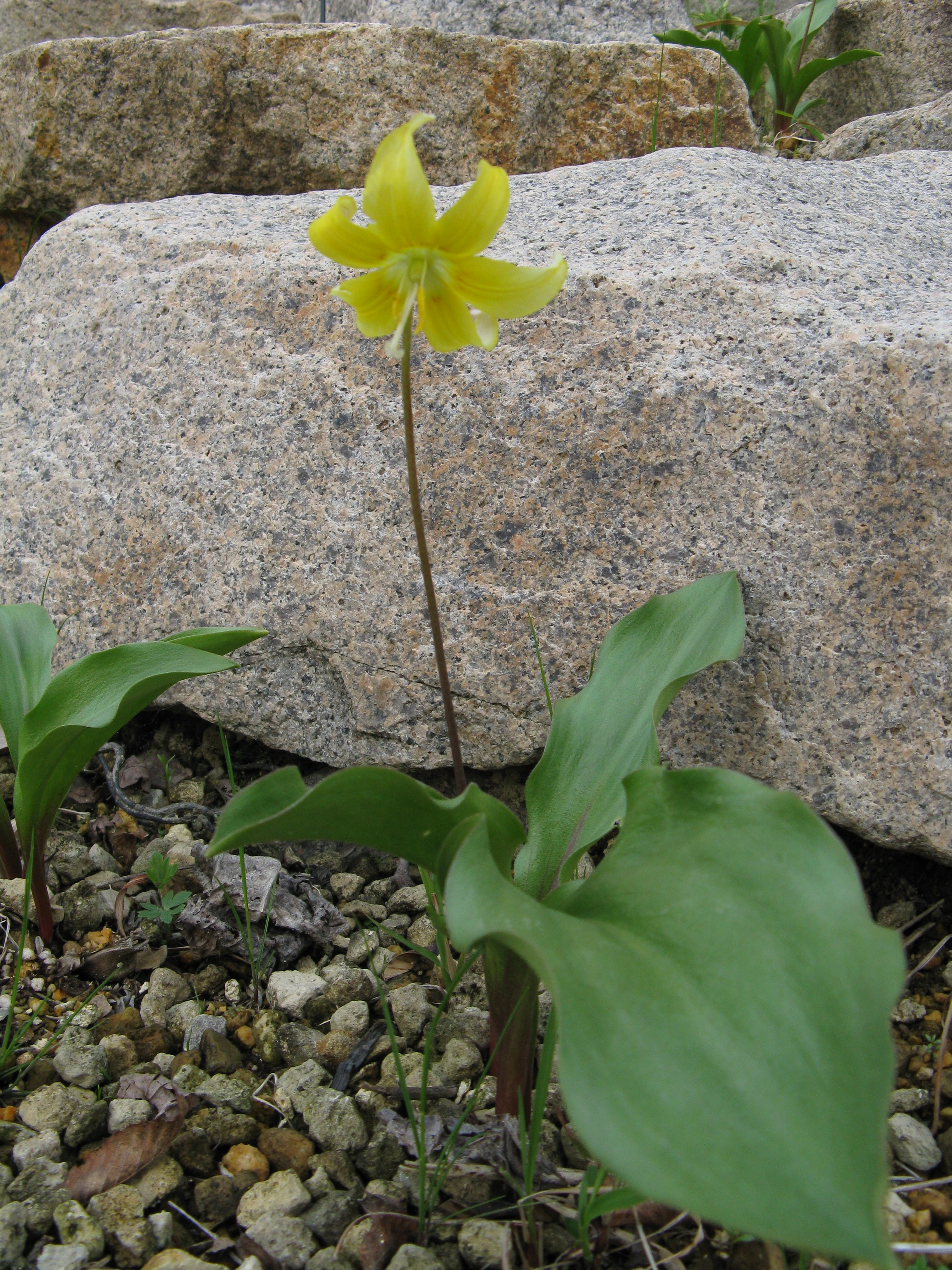 Scientific name: Erythronium 'Pagoda' Place: Osaka, Japan